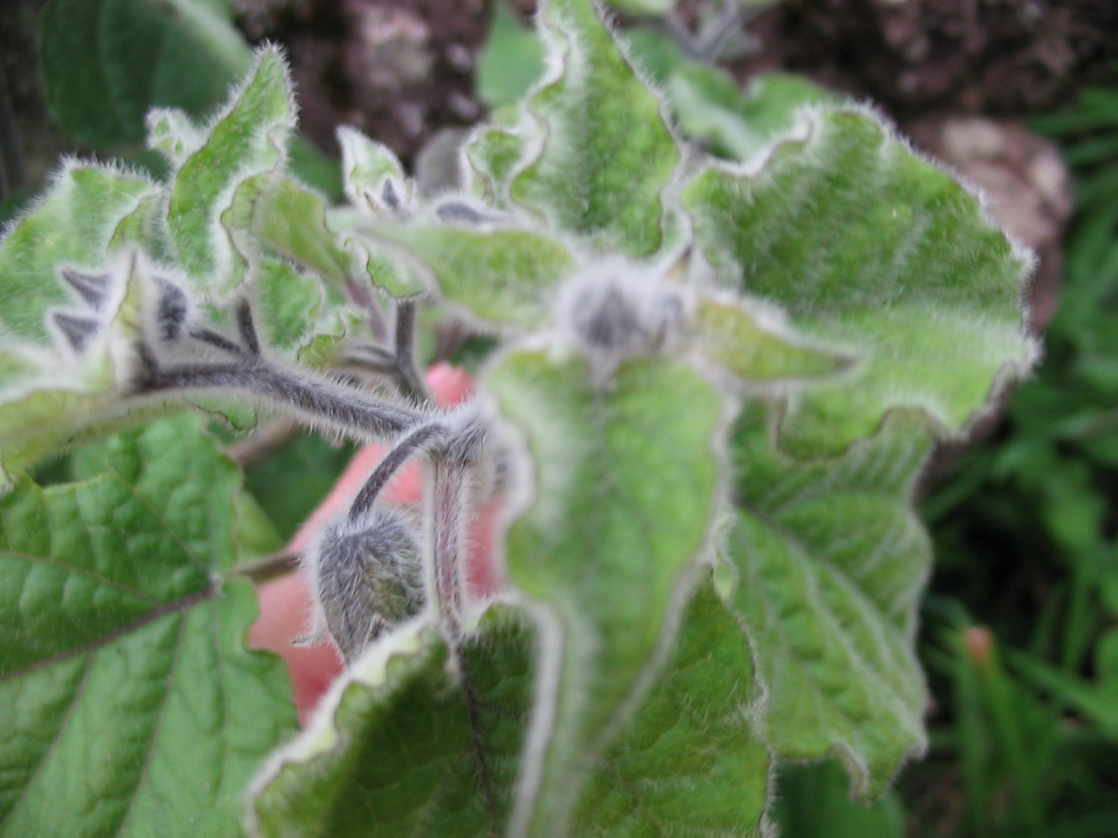 Kapstachelbeere (Physalis peruviana) - Hairs